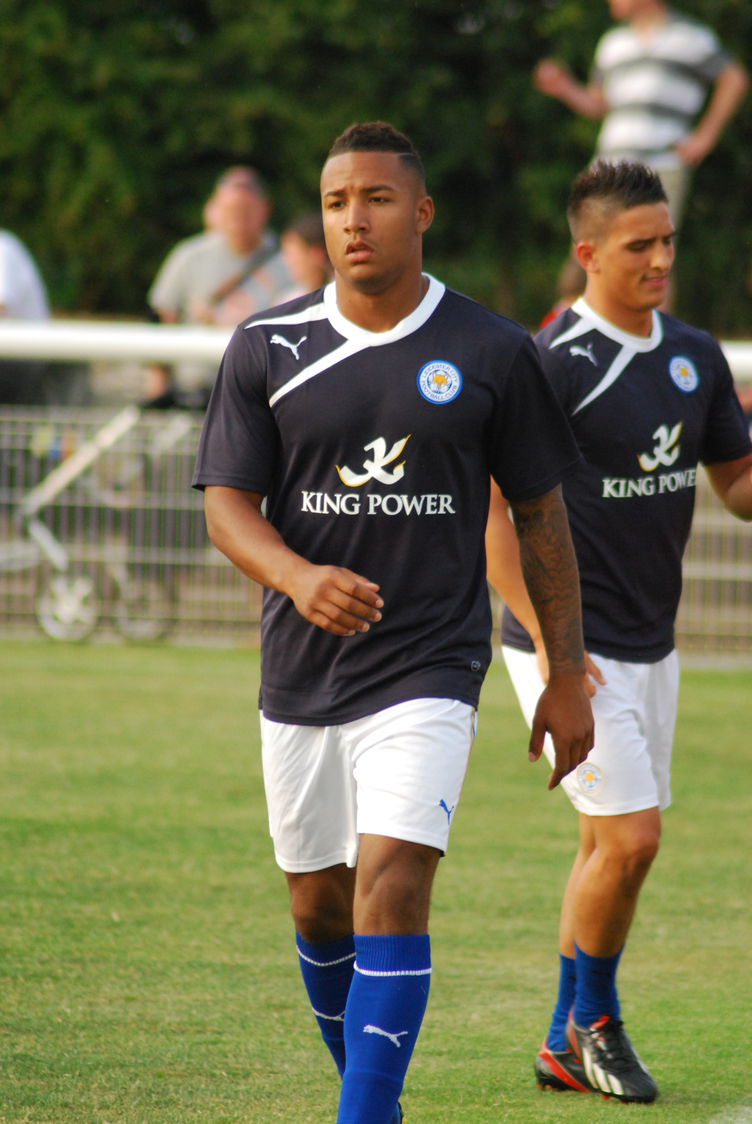 Pre-Season vs Leamington Spa